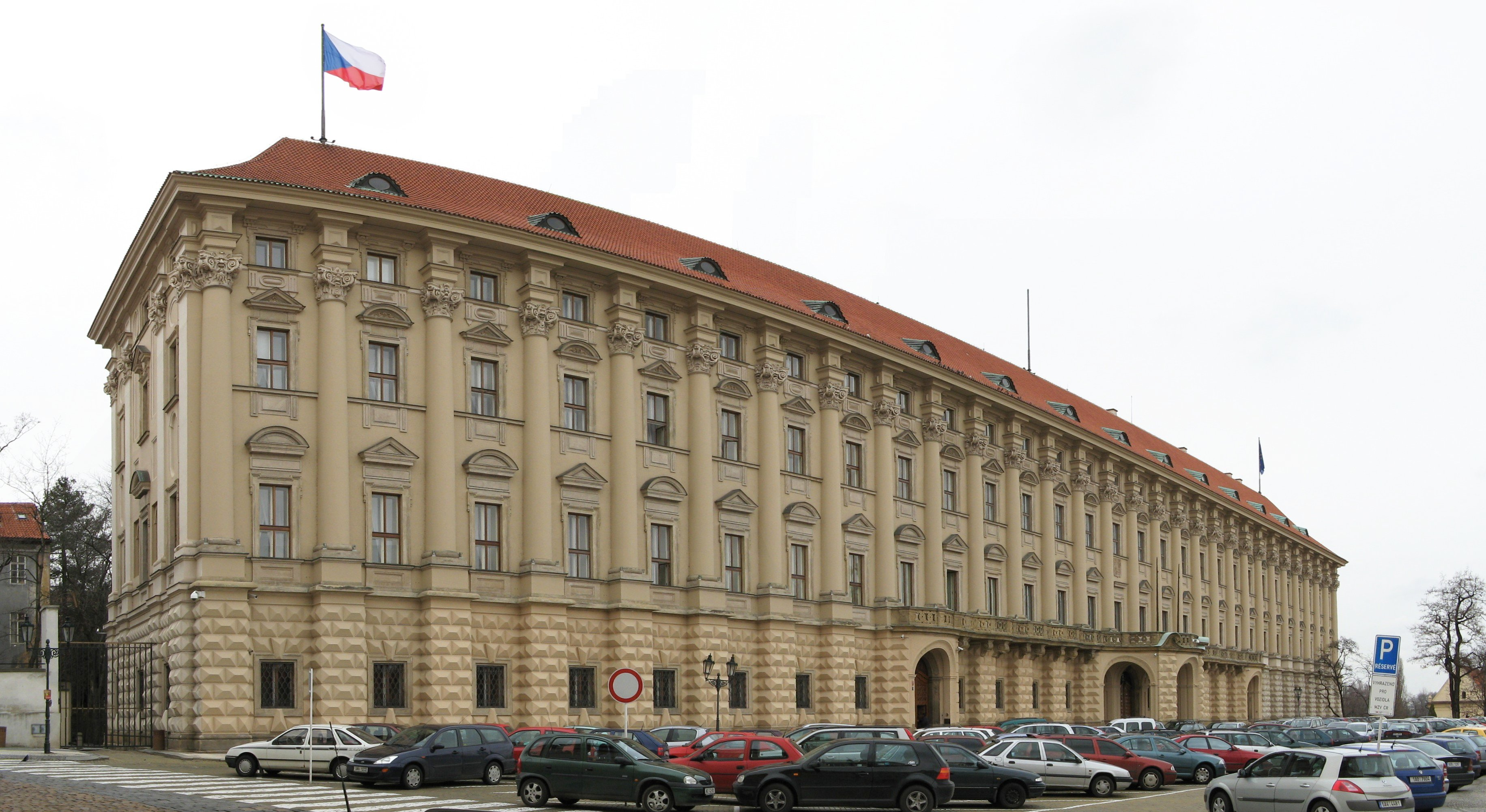 Černín Palace, Praga, Ministry of Foreign Affairs